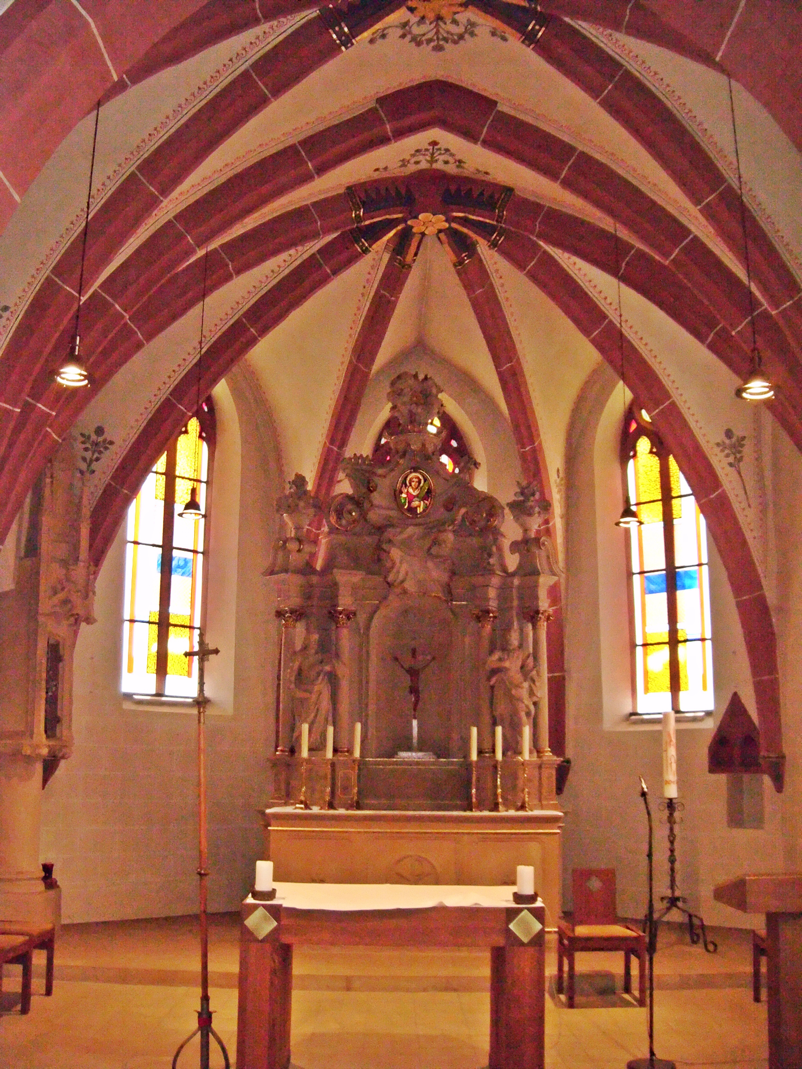 Kath. Kirche St. Stephan, Grünstadt-Sausenheim